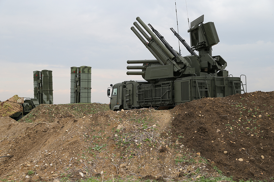 Будни авиагруппы ВКС РФ на аэродроме Хмеймим в Сирии